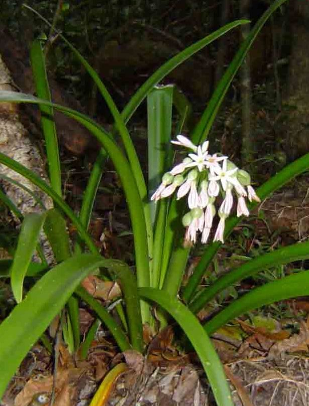 Cryptostephanus vansonii growing in Zimbabwe